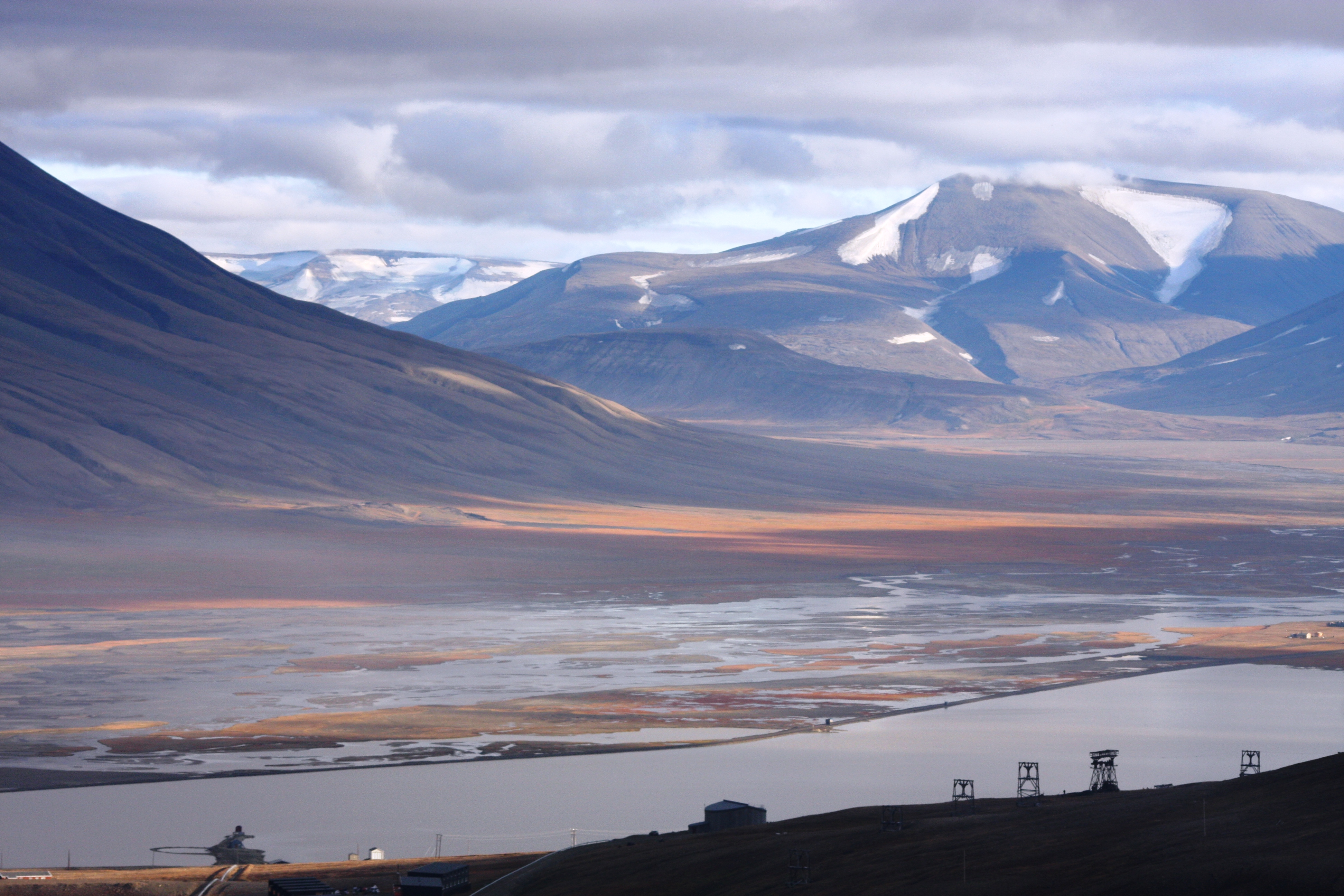 Mountains near Longyearbyen